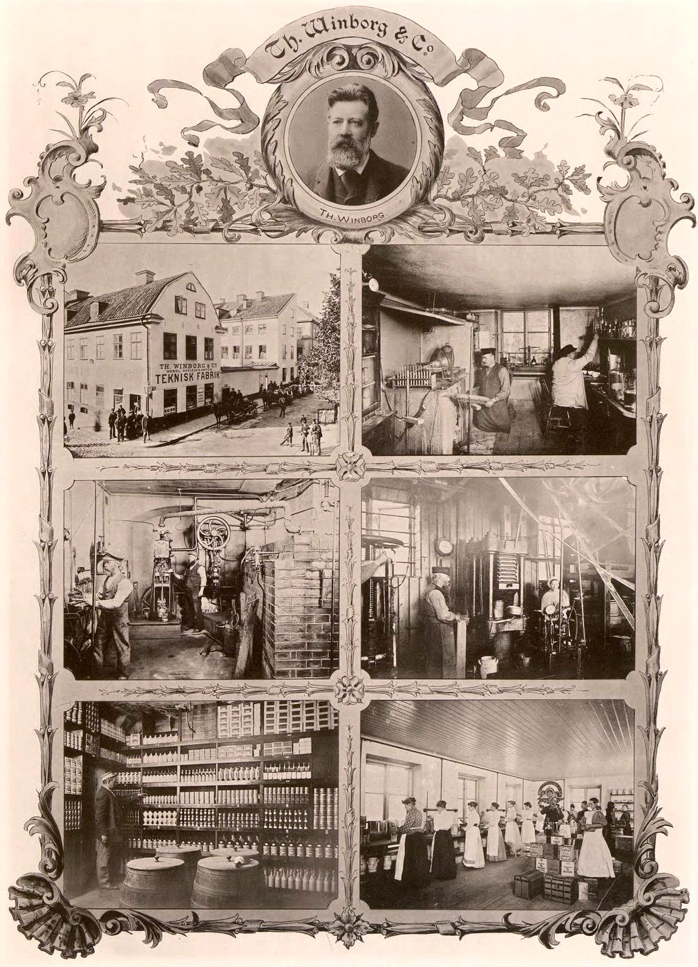 Th. Winborg & Co